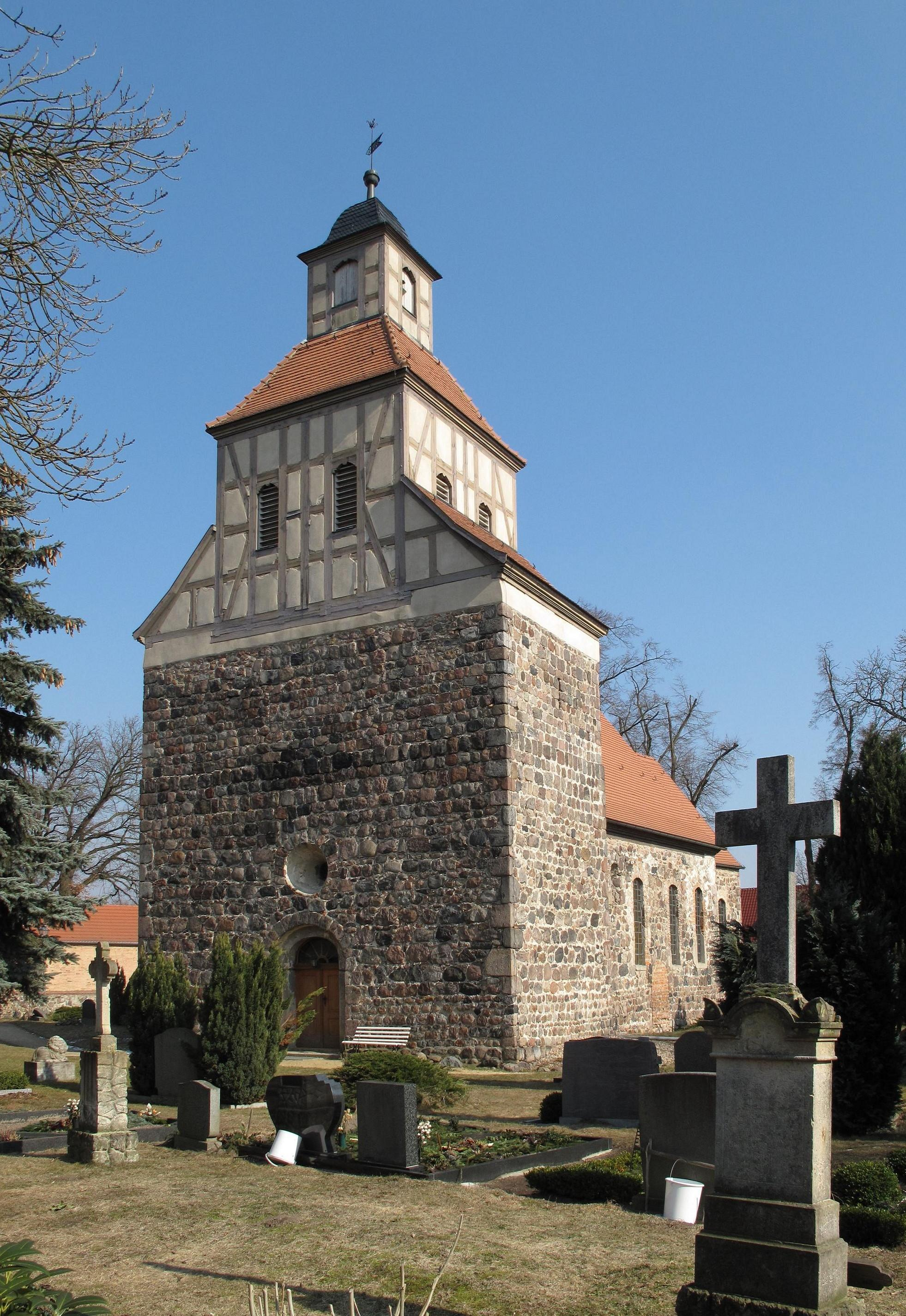 Village church Wildenbruch. Listed Fieldstone church, built in the 13th century. The timber framed addition on the center of the west tower was built in 1737 and after modifications in the meantime1992 reconstructed according to the plans from 1737. Contrary to many different depictions it is no Fortified church (german: Wehrkirche). Wildenbruch is a part of Michendorf in the district Potsdam-Mittelmark, state Brandenburg, Germany.